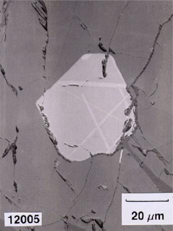 Ulvöspinel Locality: Apollo 12 landing site, Oceanus Procellarum (Ocean of Storms), The Moon Euhedral ulvöspinel with an exsolution of ilmenite. Reflected light photo. Public domain image courtesy of NASA. (NASA Lunar Petrographic Educational Thin Section Set, C Meyer - 2003)